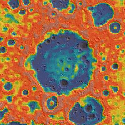 Korolev free-air gravity map (red=high, blue=low). Generated from GRAIL Colorized Gravity Anomalies (JPL) layer with LRO-WAC Shaded Relief at 30% opacity overlain. (See also Zuber et al, 2013